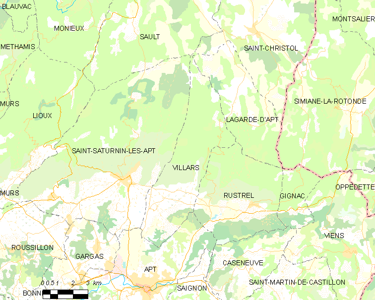 Map of French municipality Villars